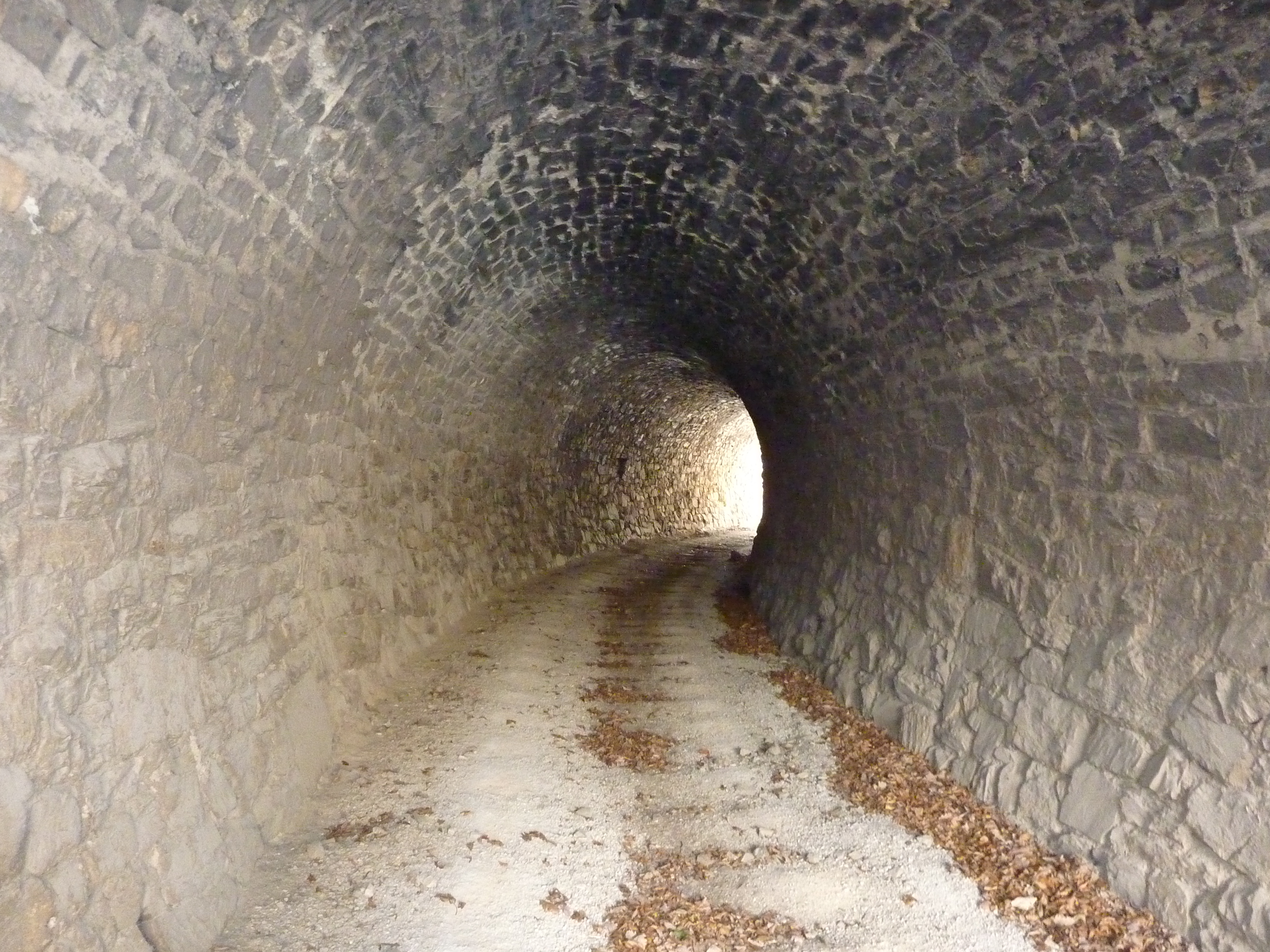 Inside the 42m curved, narrow-gauge tunnel near Govăjdia